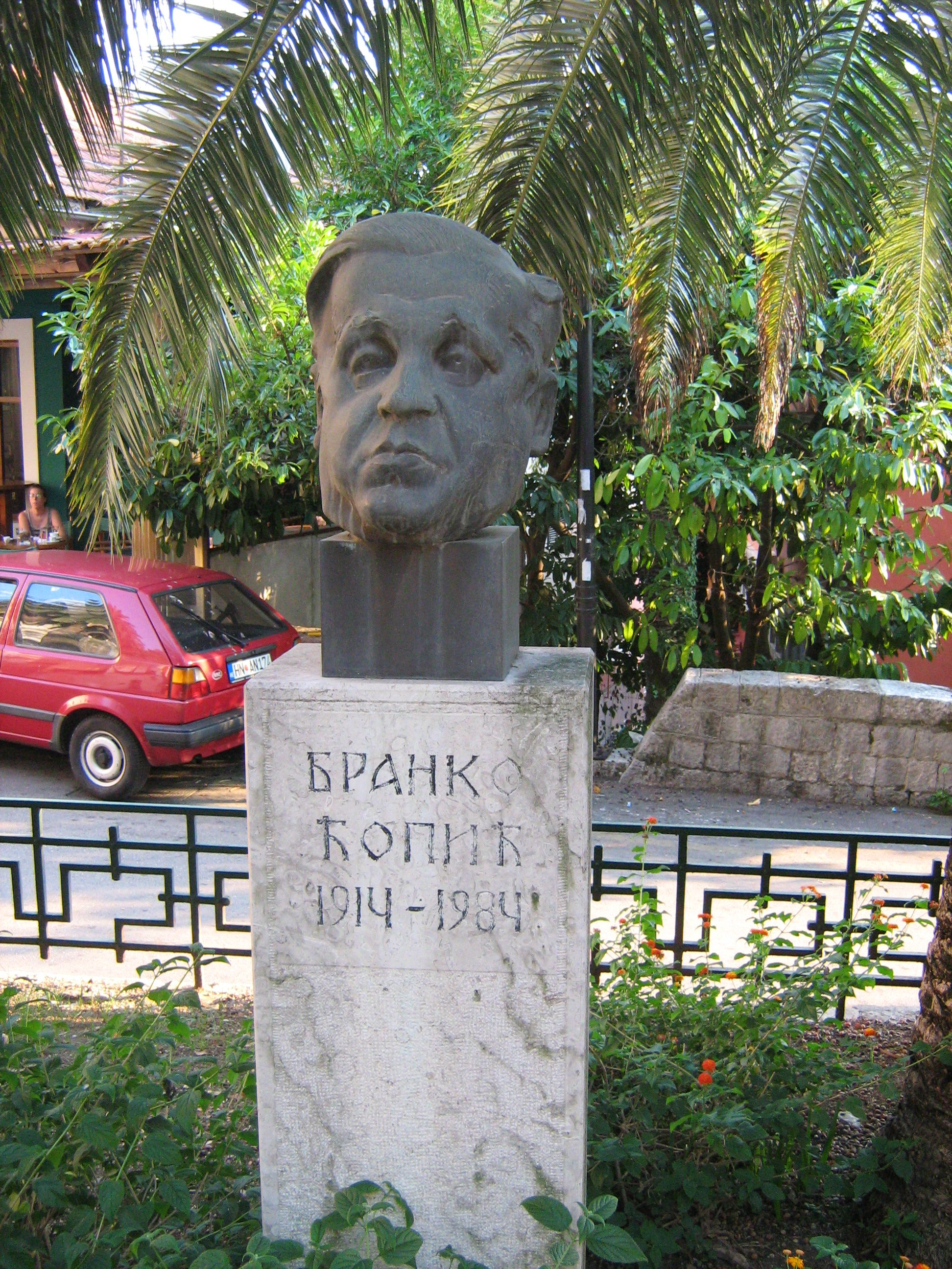 Branko Ćopić (1915-1984), pictured in Herceg Novi, Montenegro